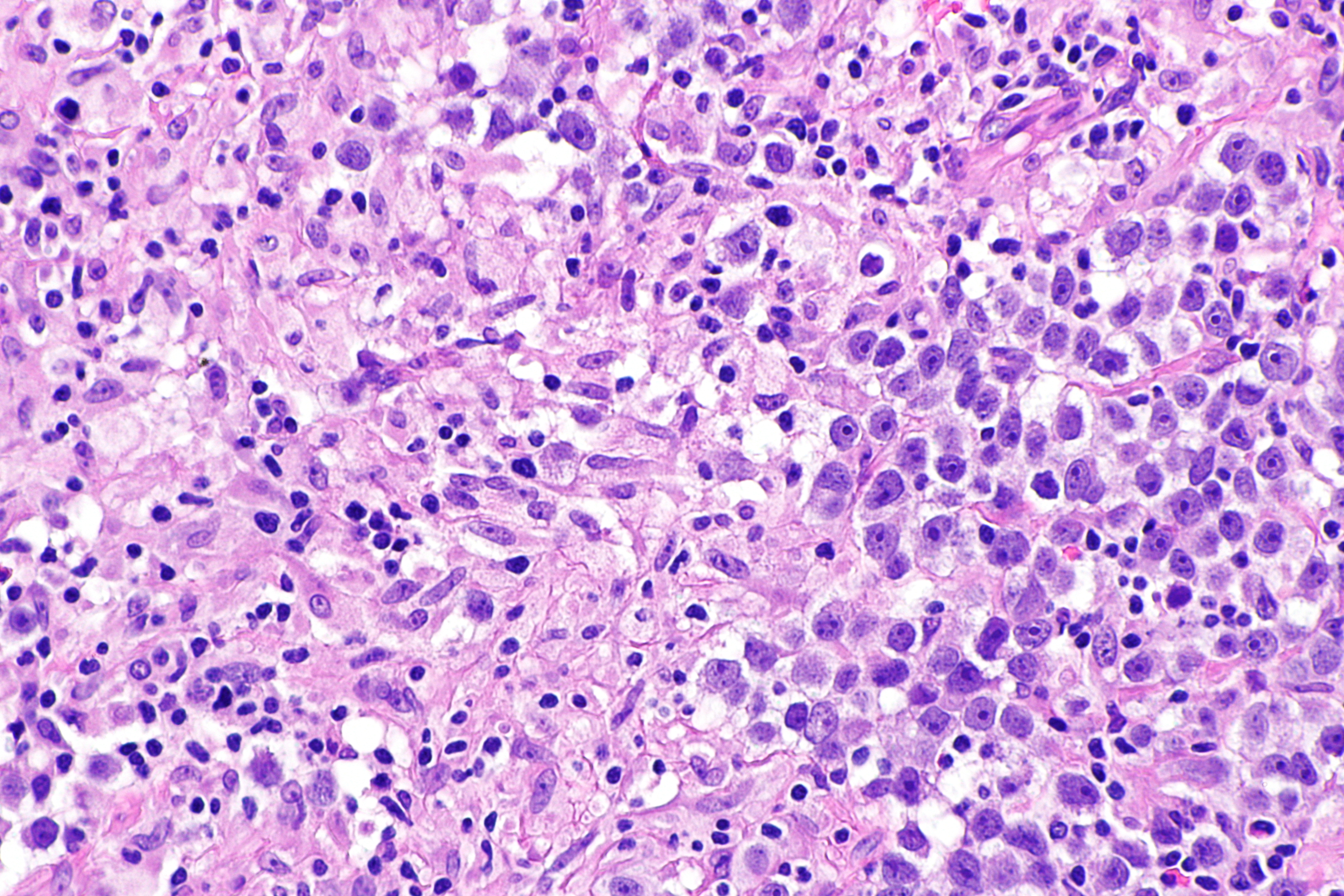 Micrograph showing a seminoma with granulomas. H&E stain. Related images Seminoma with granulomas - intermed. mag. Seminoma with granulomas - high mag. Seminoma with granulomas - very high mag. Seminoma with granulomas - low mag. Seminoma with granulomas - intermed. mag. Seminoma with granulomas - intermed. mag. Seminoma with granulomas - high mag. Seminoma with granulomas - high mag. Seminoma with granulomas - very high mag. Seminoma with granulomas - very high mag.